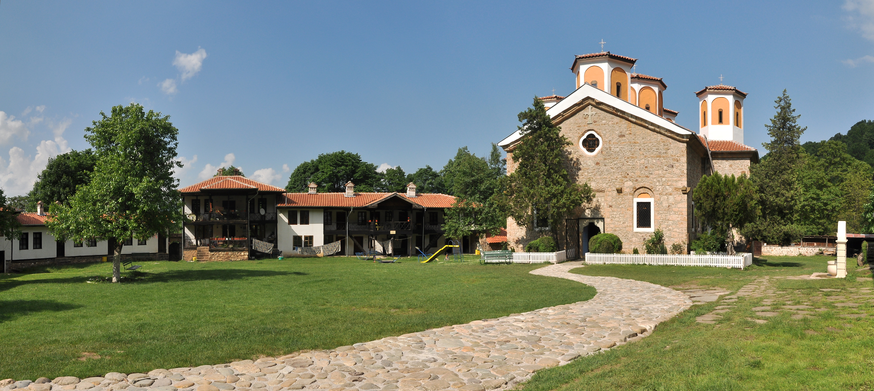 The Holy Trinity Monastery mostly known as Etropole Monastery, Bulgaria.